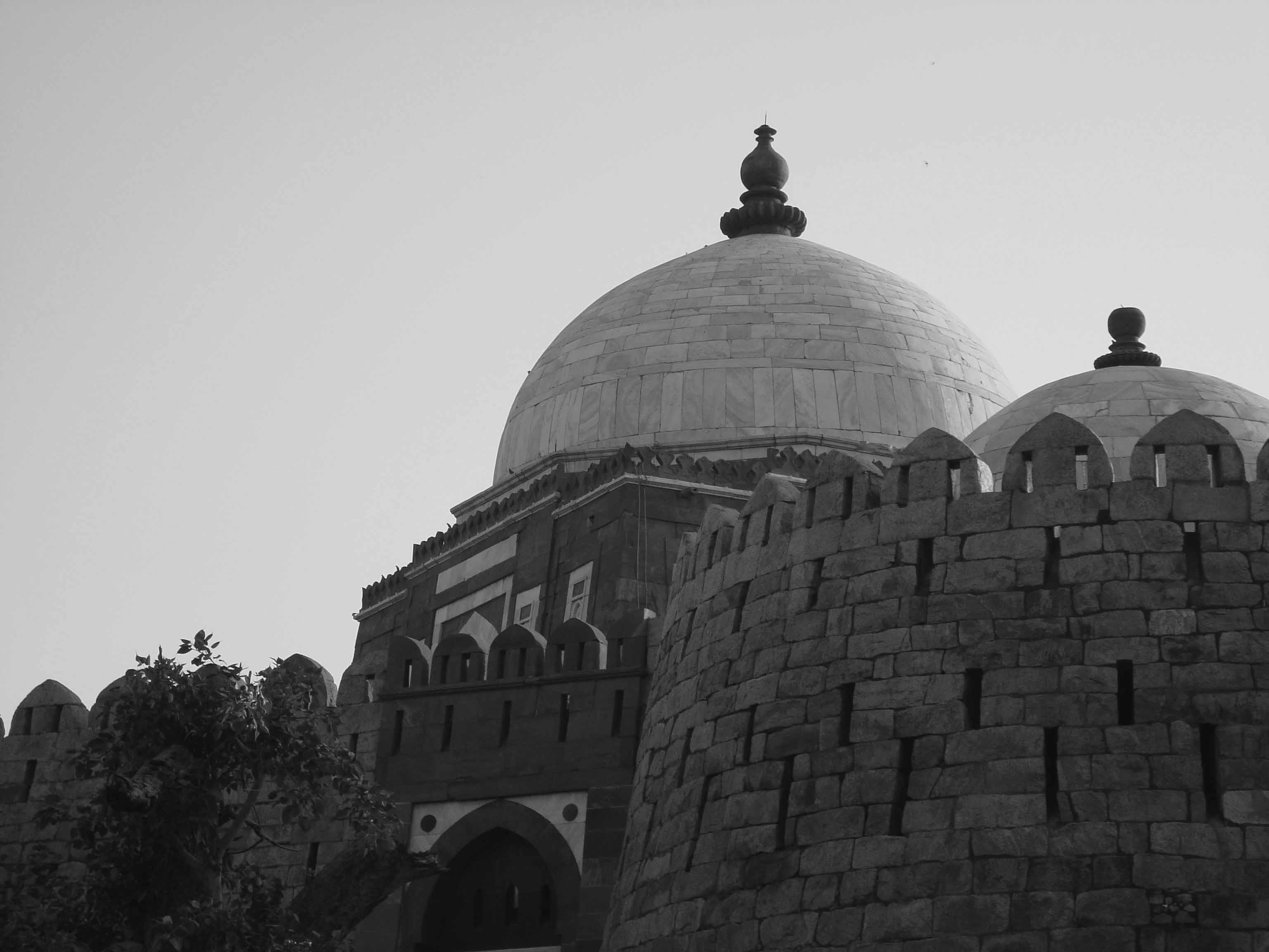 Walls, gateways bastions and internal buildings of both inner and outer citadels of Tughlaqabad fort